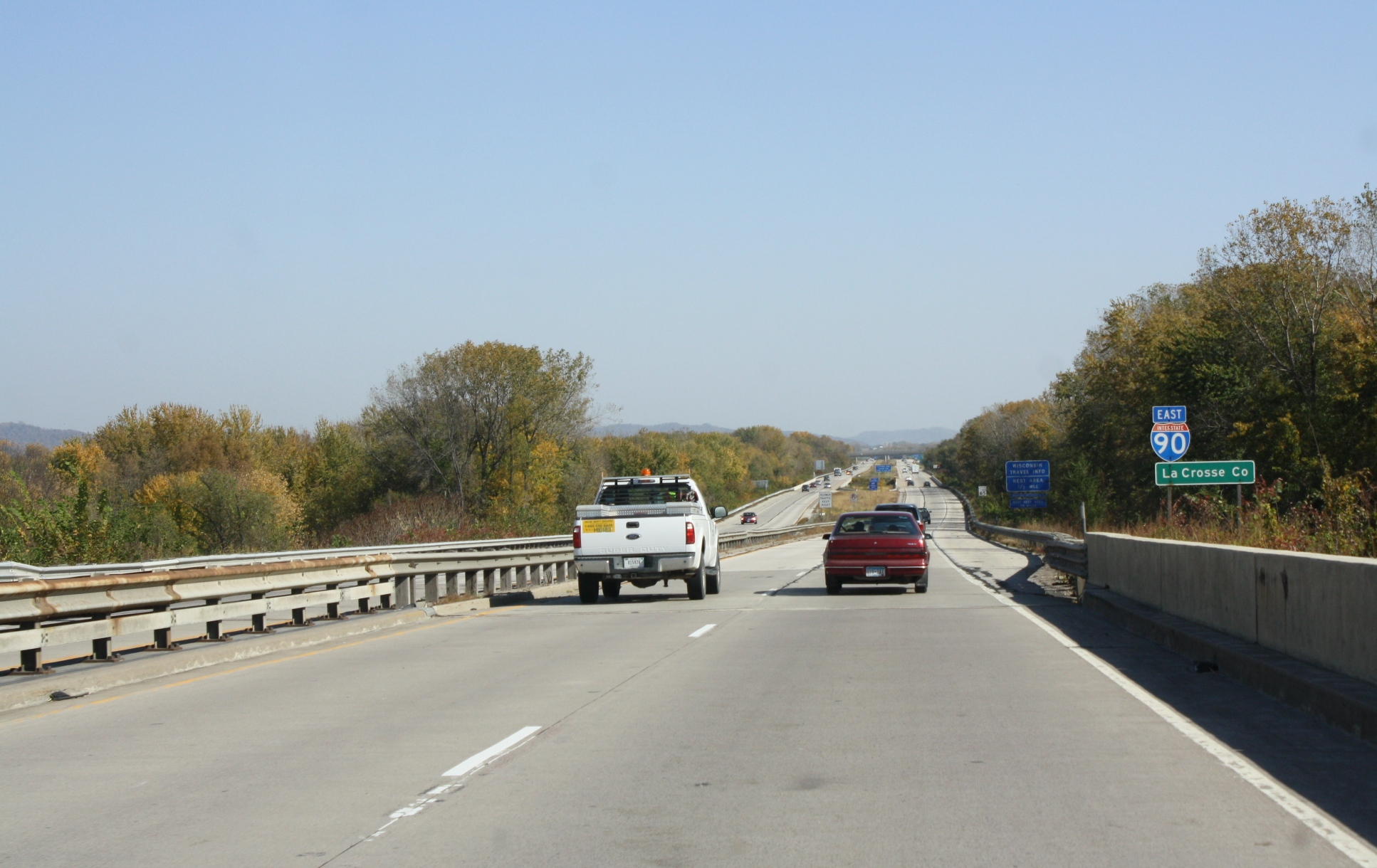 Looking east the welcome sign for La Crosse County, Wisconsin while entering Wisconsin on Interstate 90.